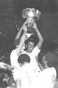 .Saudi soccer player Majed Abdullah with the Asia Cup 1984